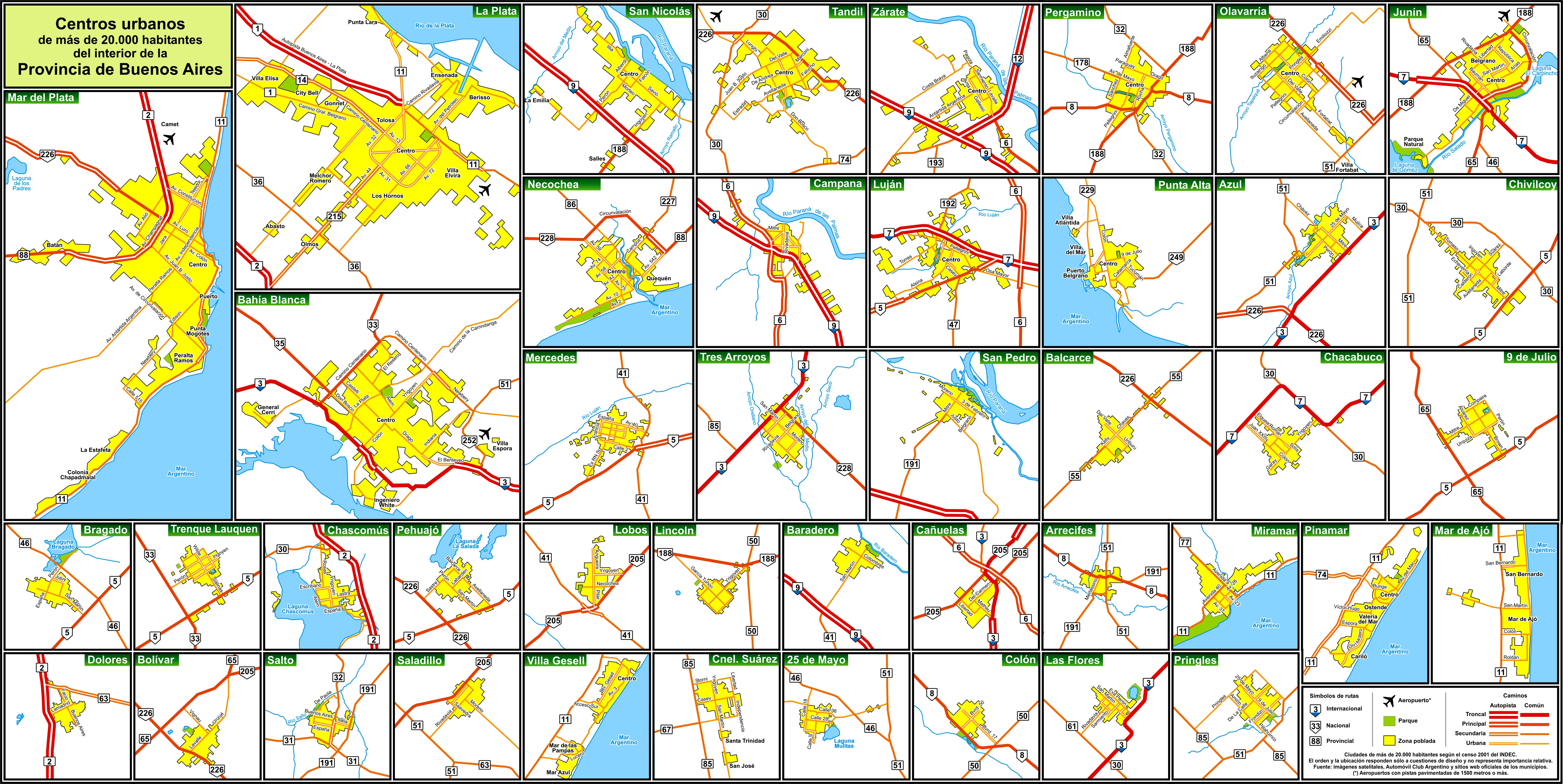 Cities over 20.000 inhabitants inside Buenos Aires province, Argentina.